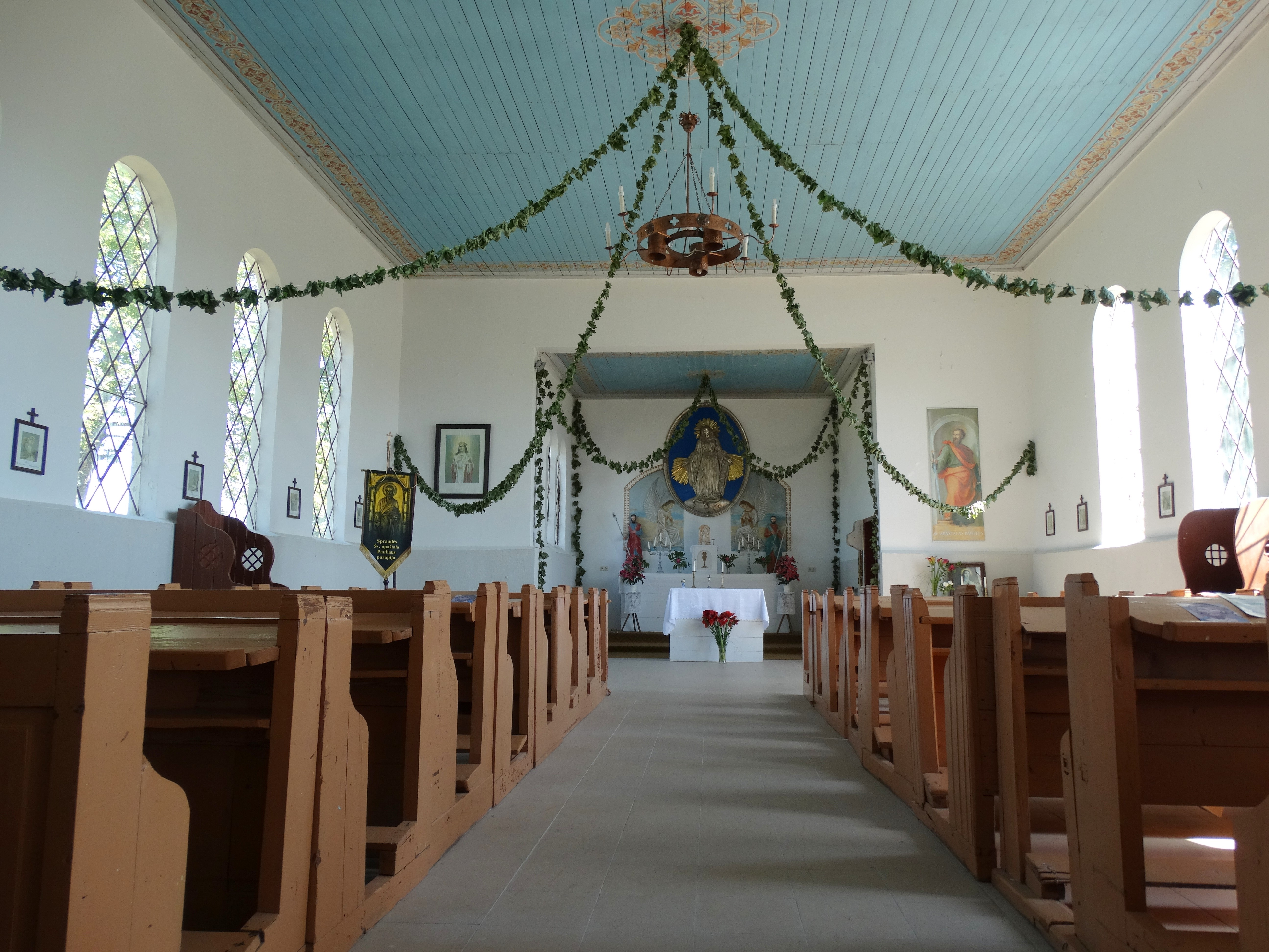 Saint Paul church in Spraudis, Rietavas Municipality, Lithuania